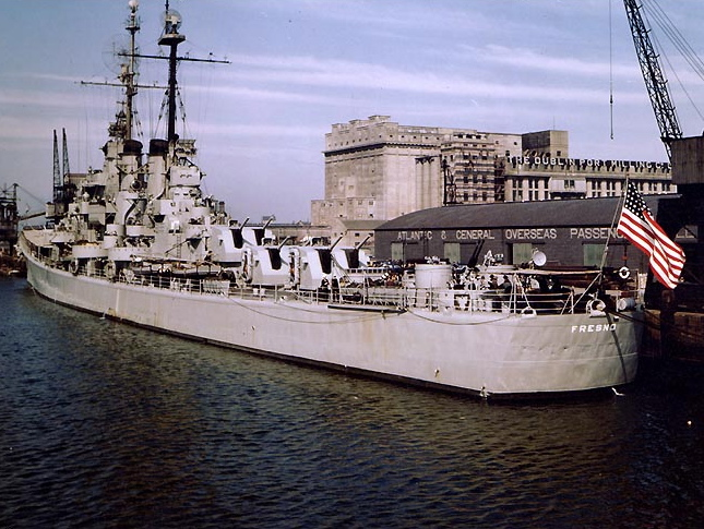 The U.S. Navy light cruiser USS Fresno (CL-121) at Dublin, Ireland, in May 1948.